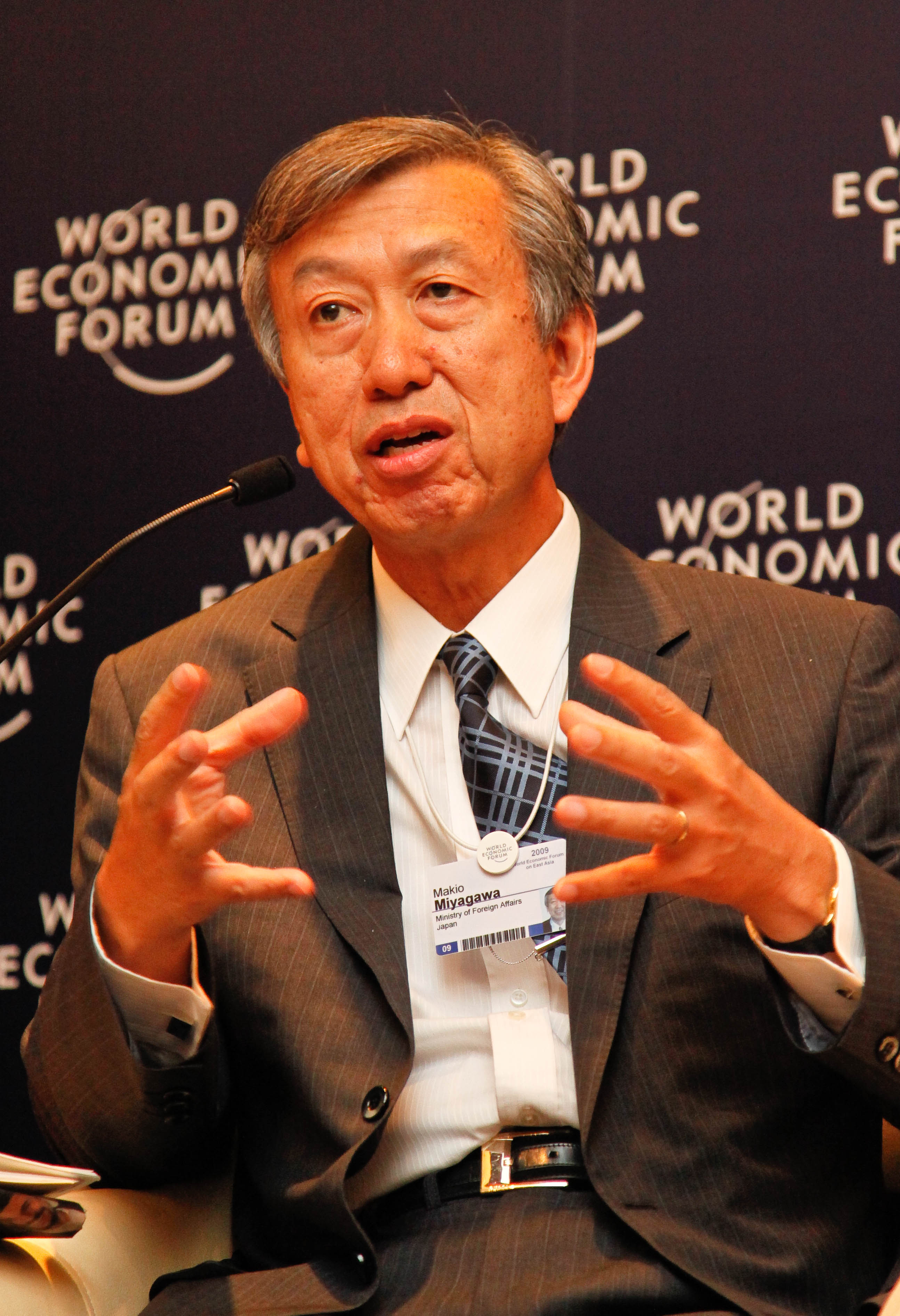 Makio Miyagawa, Councillor of the Ministry of Foreign Affairs, sporken at the World Economic Forum on East Asia in Seoul Special City on June 18, 2009.